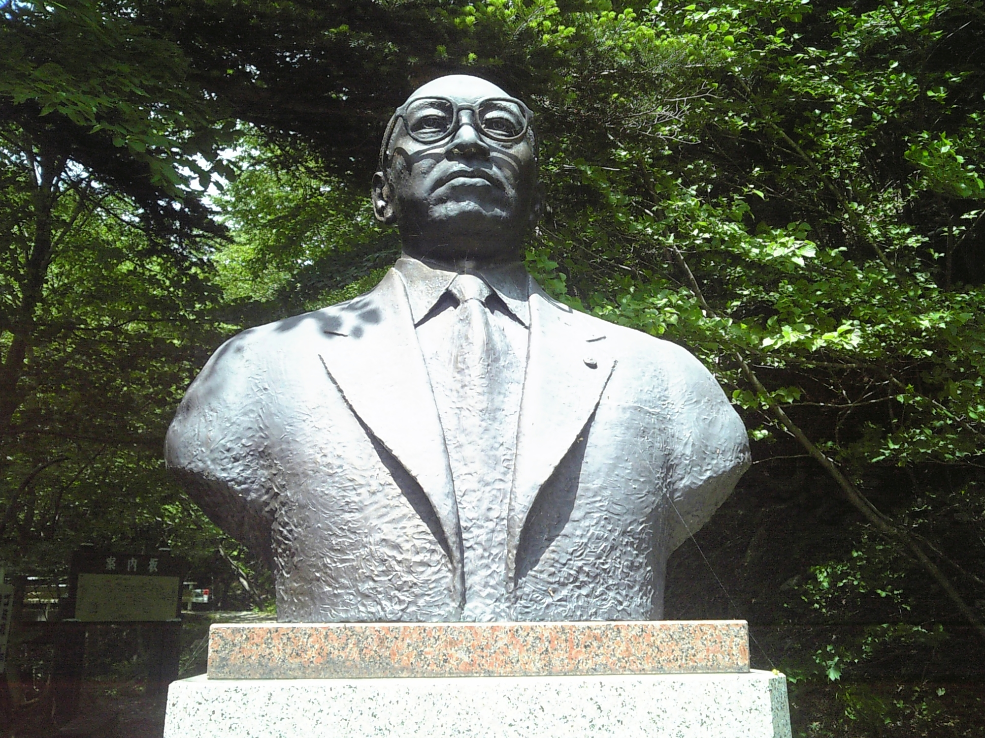 Bust of Michio Watanabe at Shiobara-Onsen, Nasushiobara, Tochigi, Japan. This bust is worked to celebrate the completion of National Route 400 in October 1989.